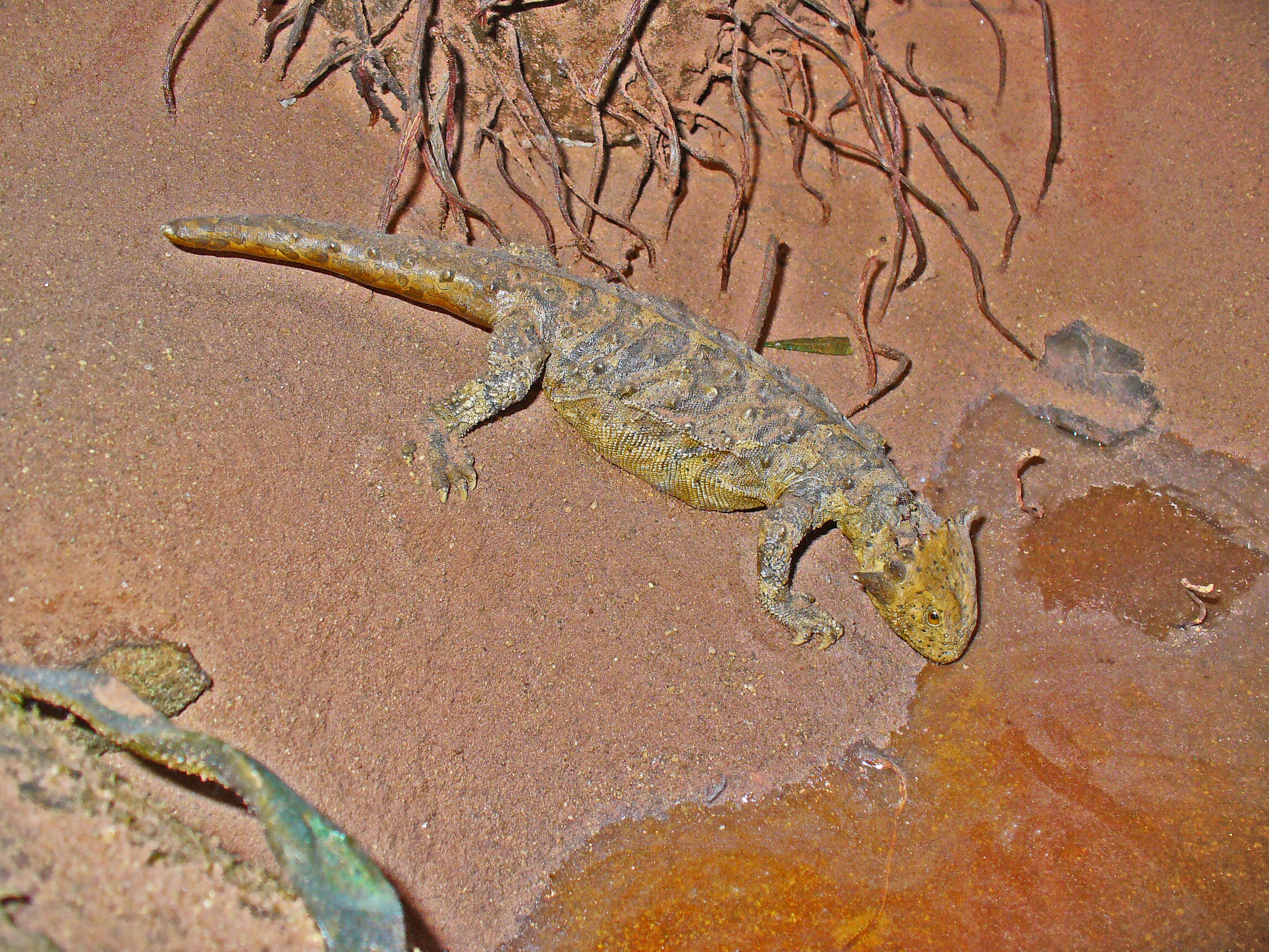 Hypsognathus spec., Procollophonidae, Early Triassic, Model in life size; Staatliches Museum für Naturkunde Karlsruhe, Germany.